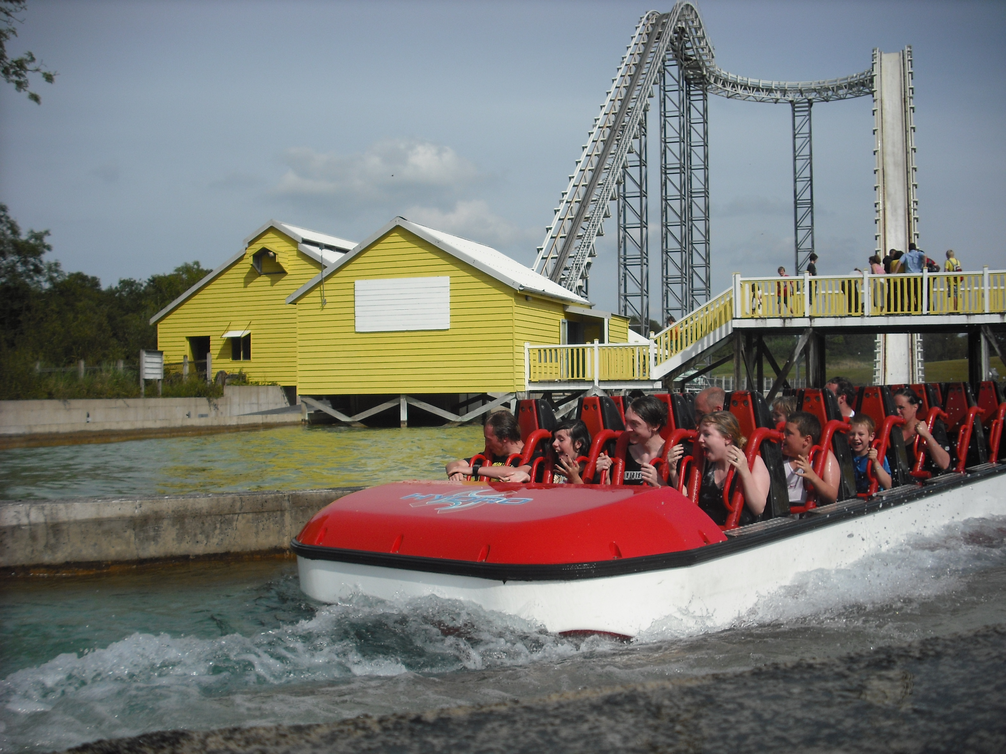 Hydro water coaster at Oakwood Theme Park